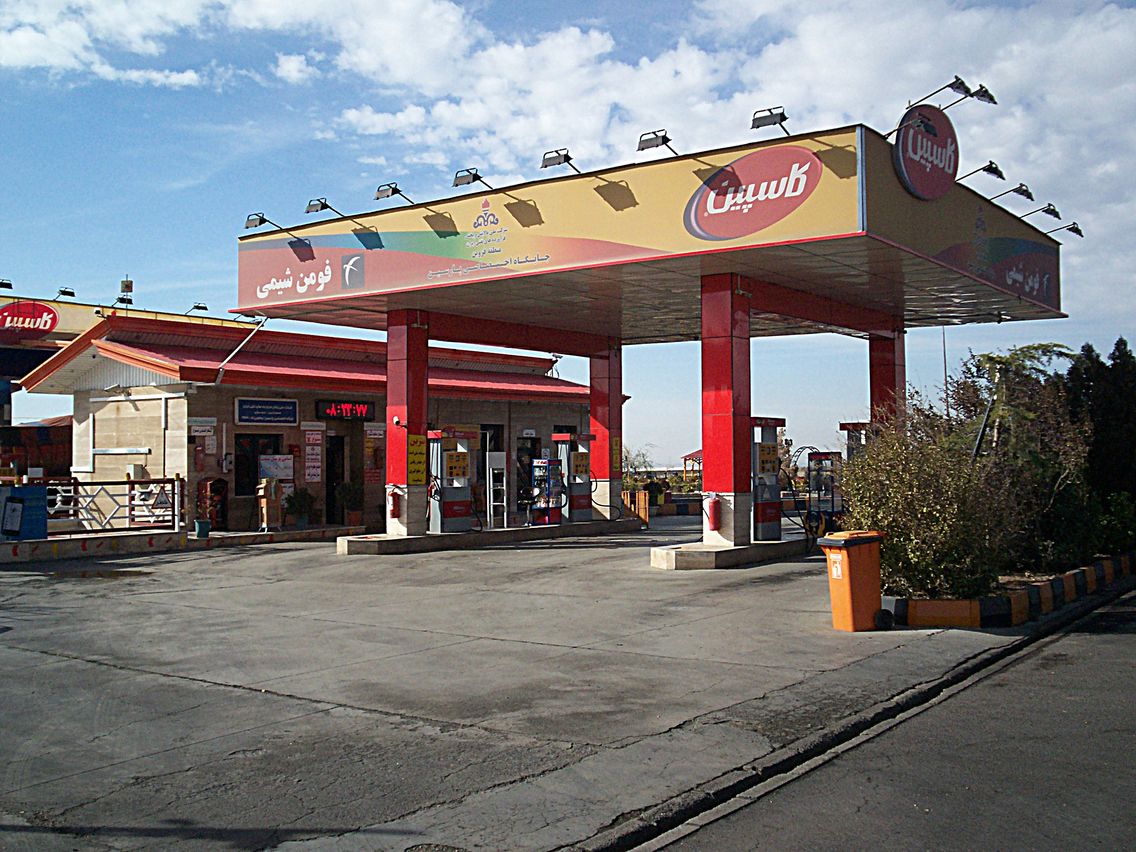 Parsin Gas and CNG Station in Karaj-Qazvin Freeway, 2017